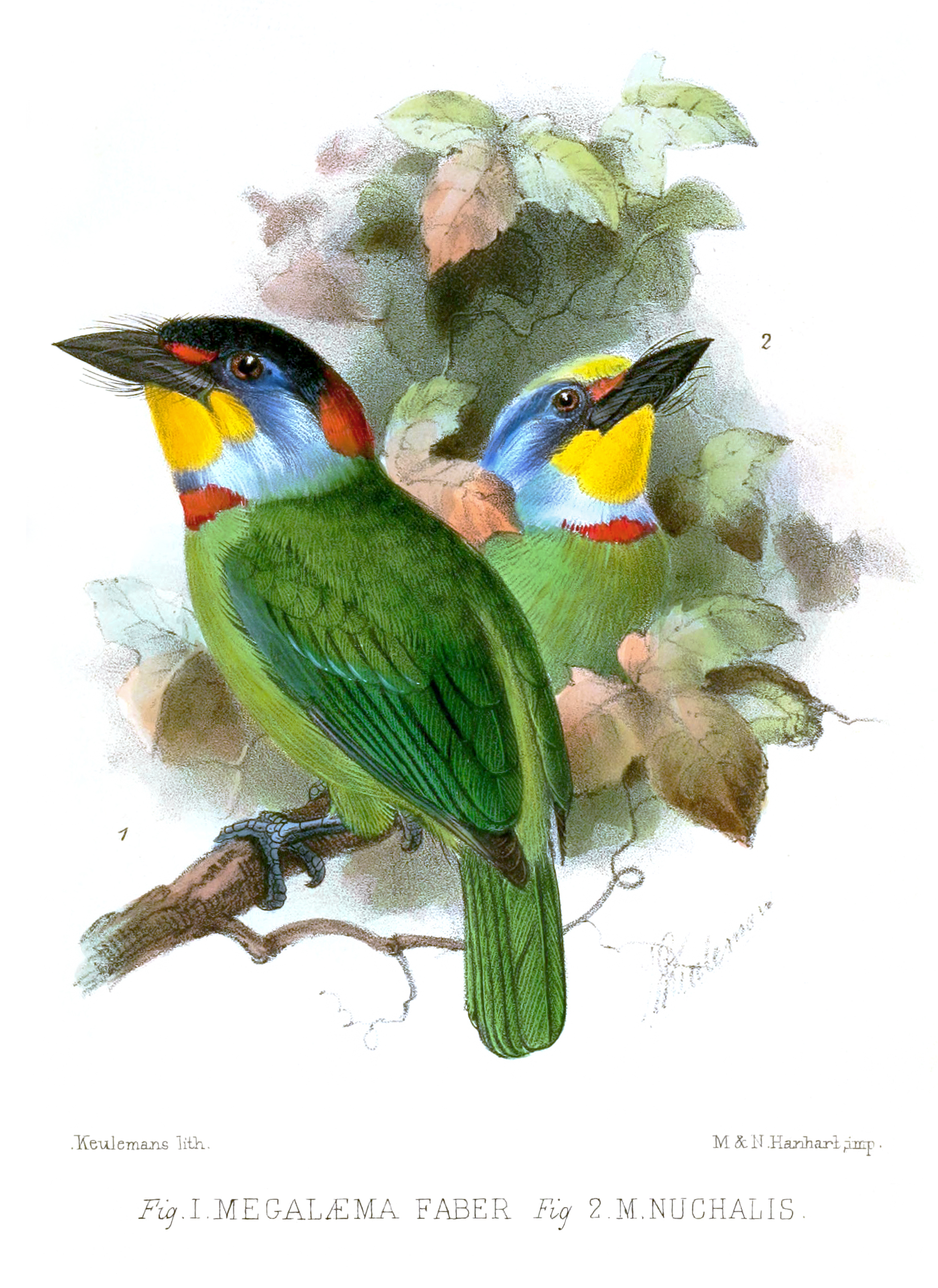 « Megalaema faber » = Megalaima faber (Chinese Barbet) « Megalaema nuchalis » = Megalaima nuchalis (Taiwan Barbet)